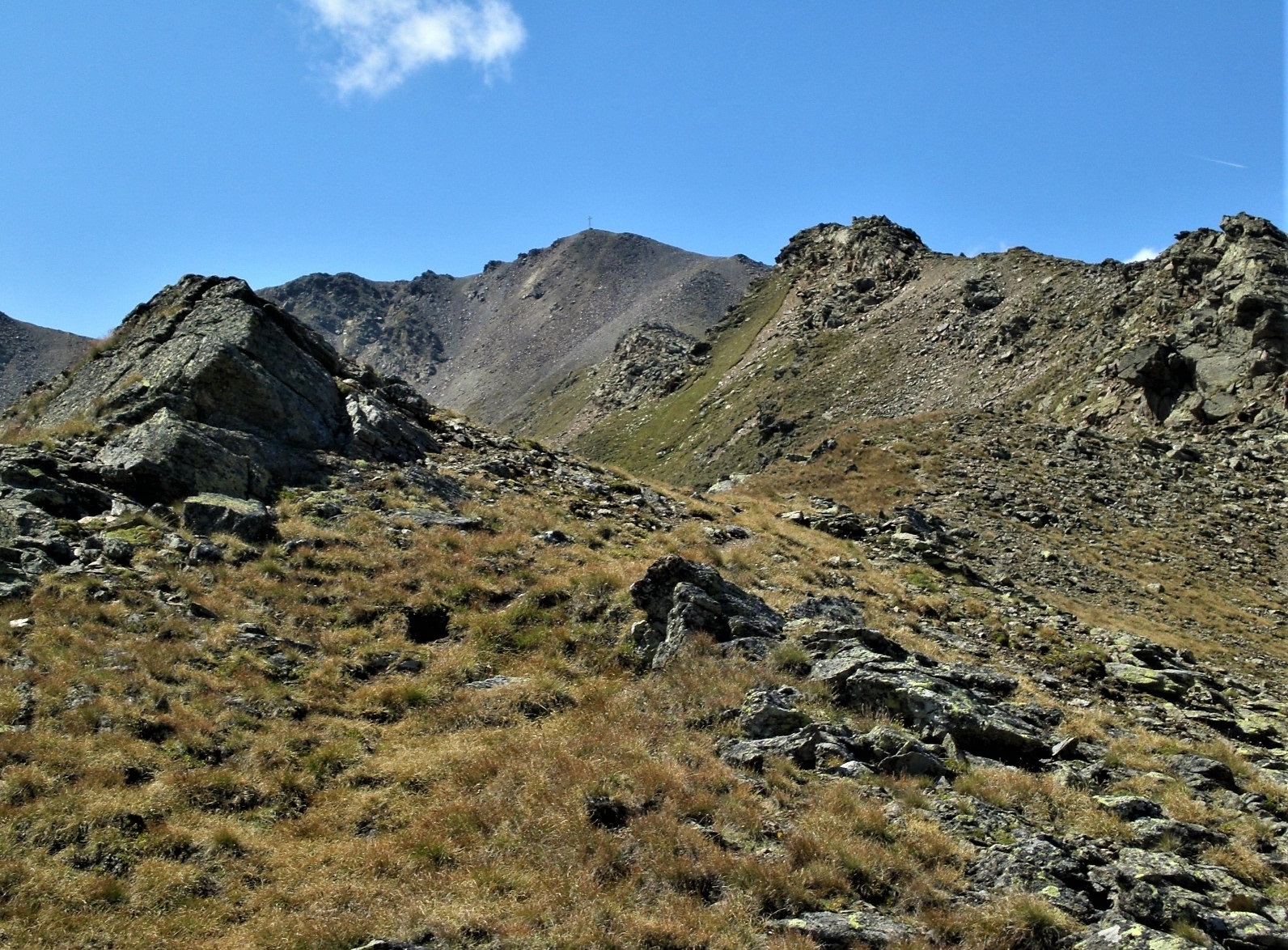 Rasassspitze (2,941 mt.) seen from ENE ridge